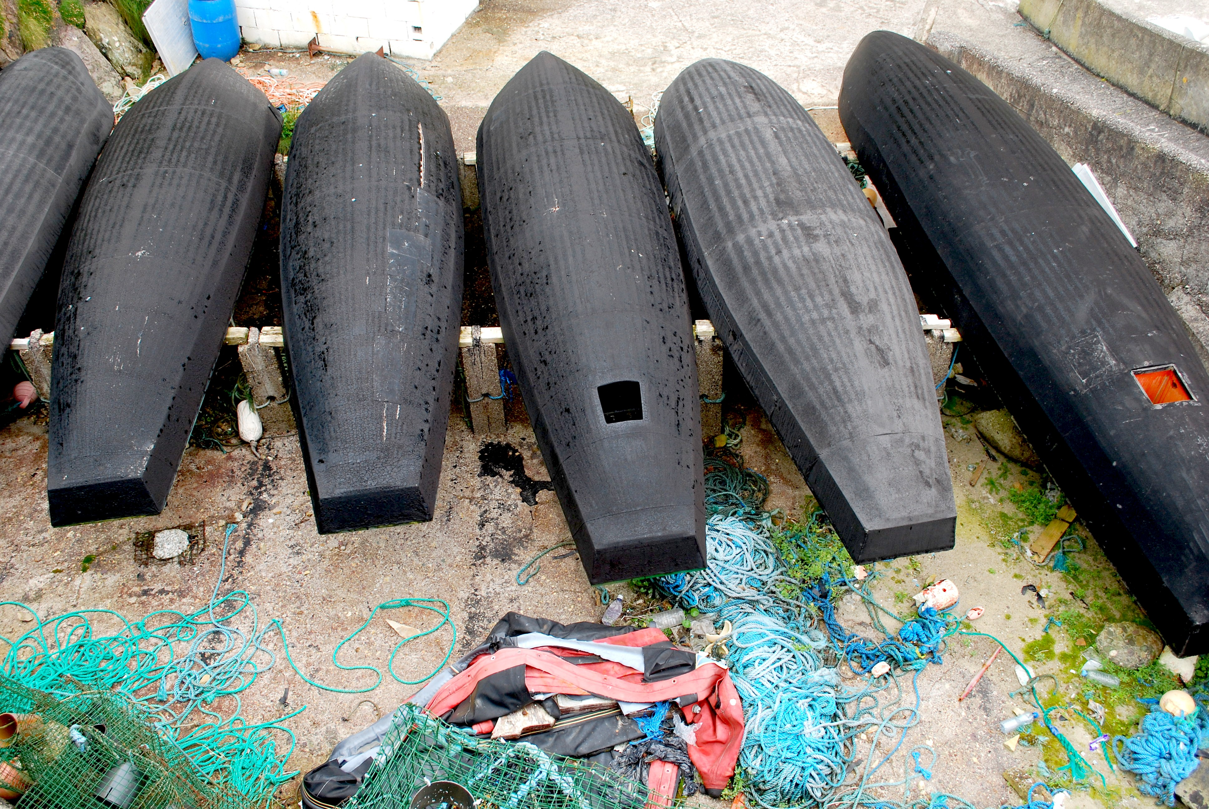 Currach Boats in harbour of Dunquin, County Kerry, Ireland